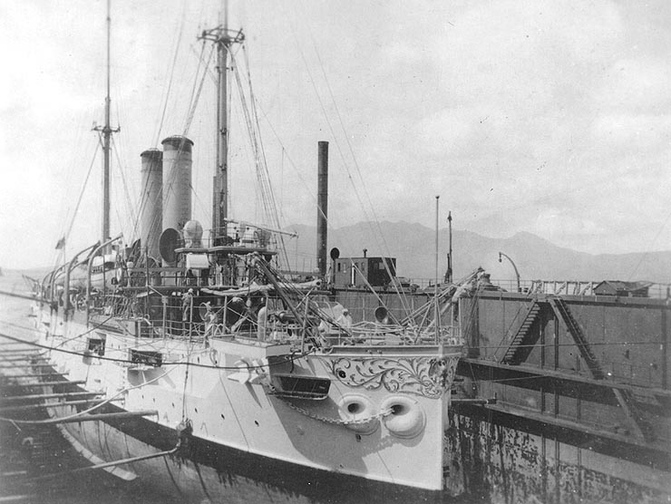 USS Cleveland (Cruiser # 19) in the "Dewey" Dry Dock, Olongapo Naval Station, Philippine Islands, circa 14 January 1908. Original caption: “Photo # NH 100004 USS Cleveland n the Dewey Drydock Yard, Olongapo Naval Station, P.I., 14 January 1908” — removed caption